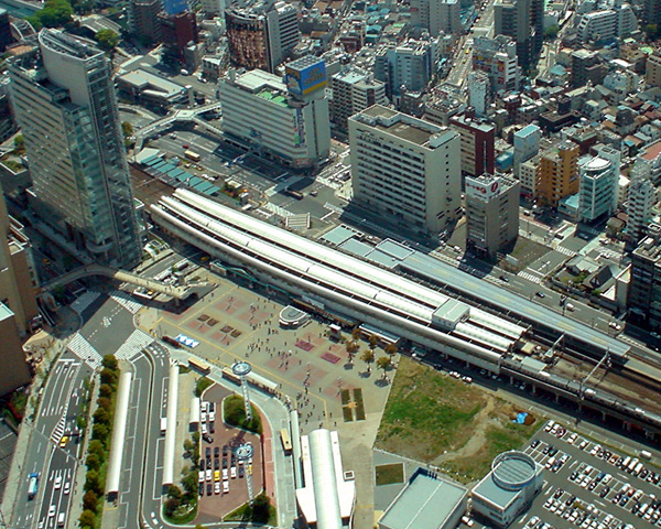 Sakuragicho Station viewed from the Yokohama Landmark Tower